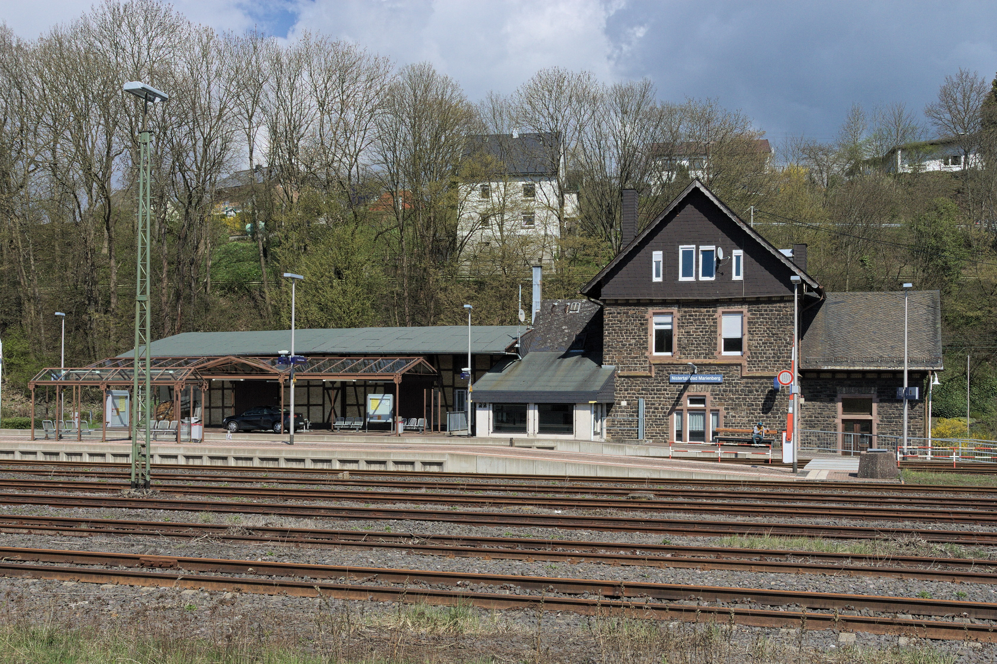 Railway station Nistertal/Bad Marienberg (formerly Erbach) at the Oberwesterwaldbahn (Altenkirchen-Limburg, Germany). Western part. Cultural heritage monument, erected approx. 1885. Location: Bahnhofstraße, Nistertal, Westerwald, Germany